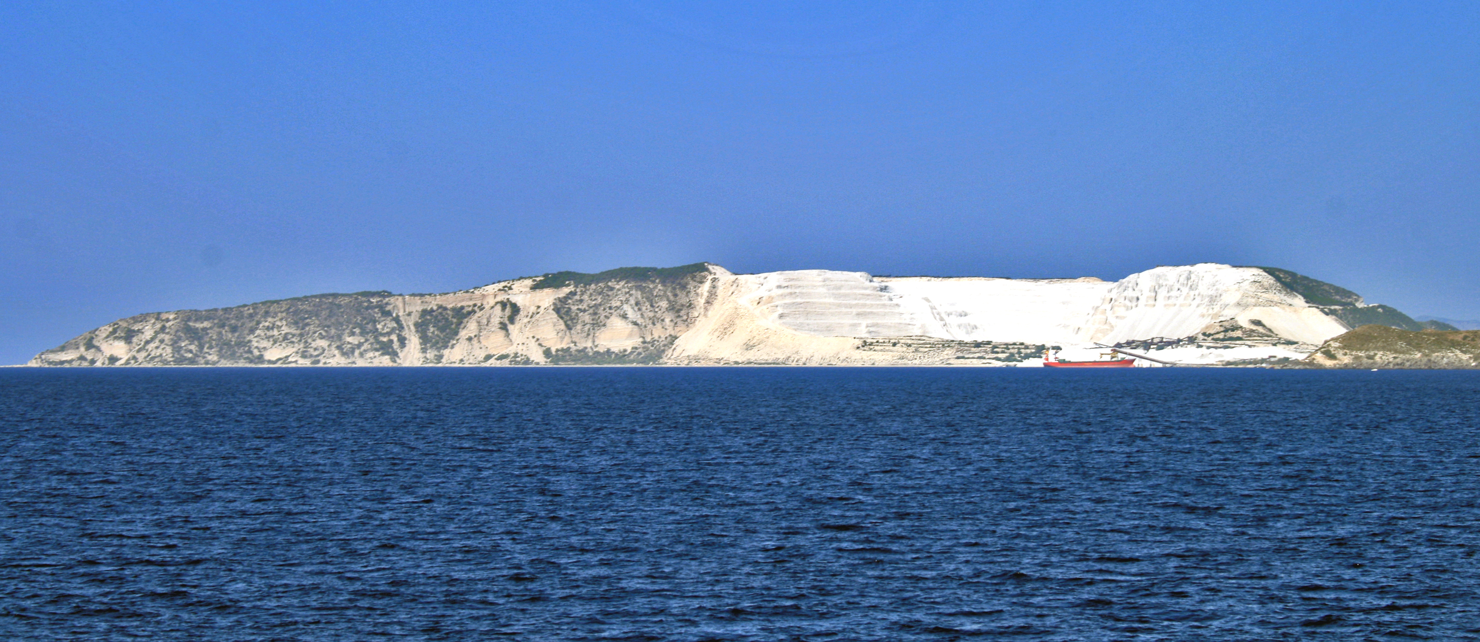 View from the sea to small island Gyali with pumice mine near of near of Nisyros and Kos islands (Greece)